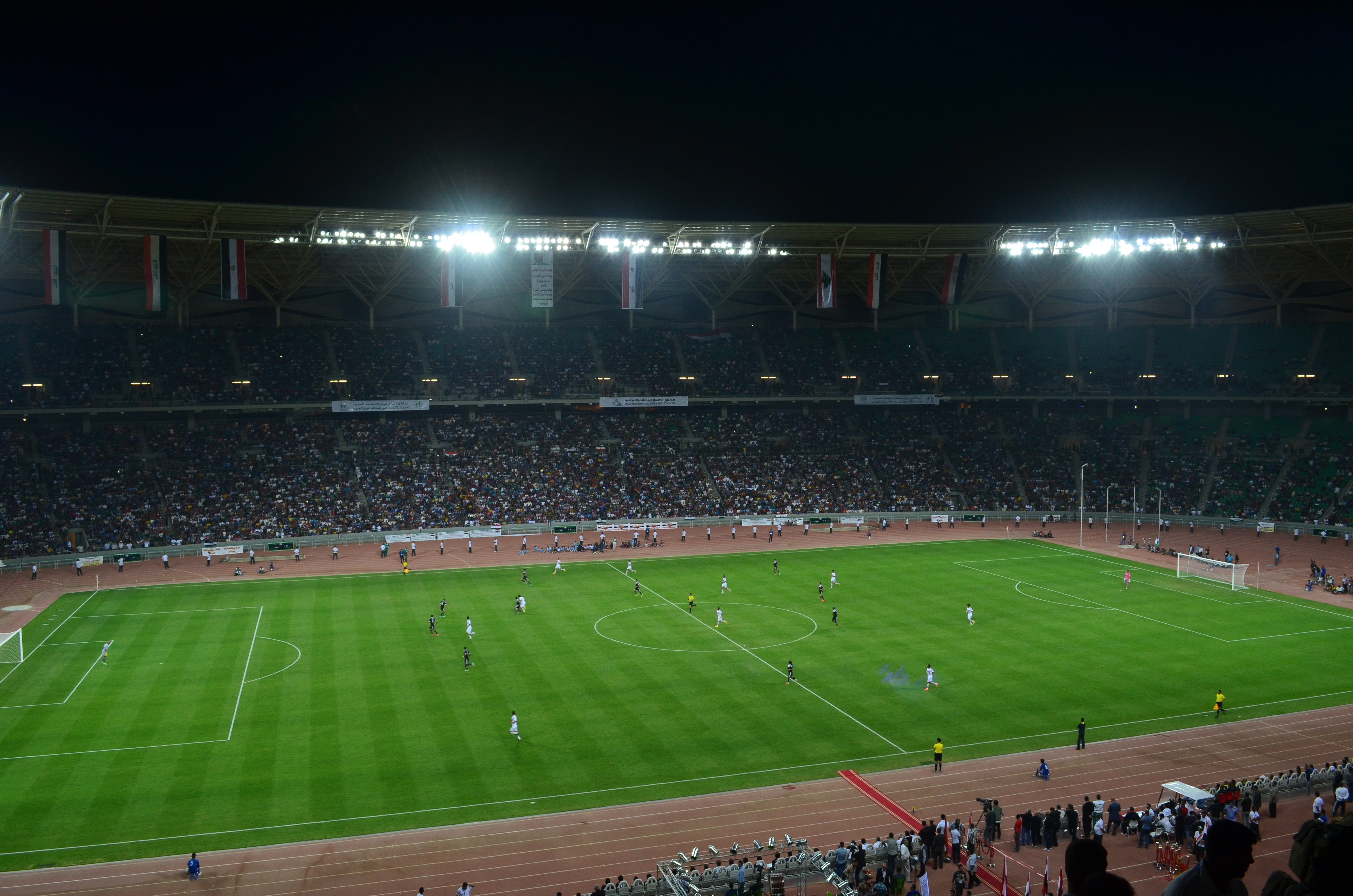 During the soft opening second match between Zamalek SC (Egypt) and Al-Zawra'a SC (Iraq).